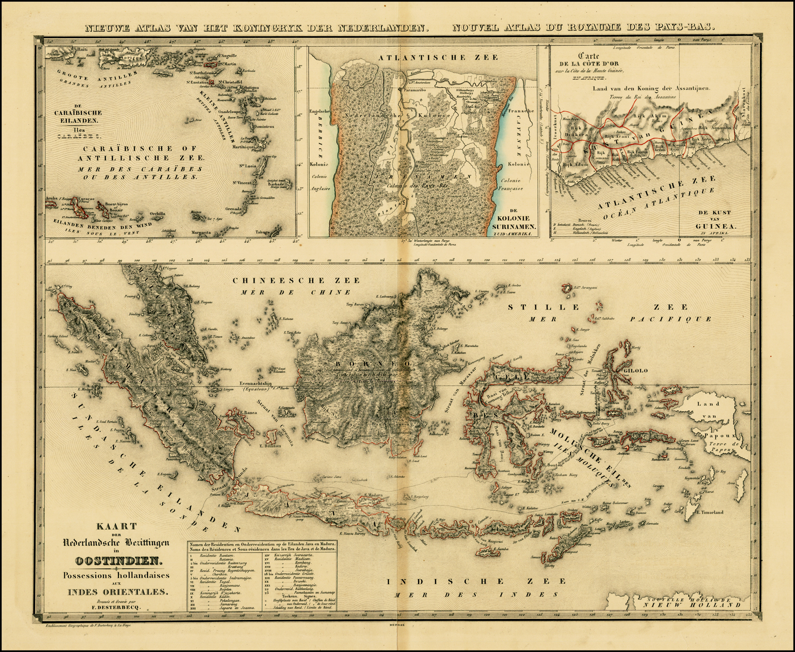 Map of the Dutch colonial possessions around 1840, including the Dutch East Indies, Curacao and Dependencies, Suriname, and the Dutch Gold Coast.